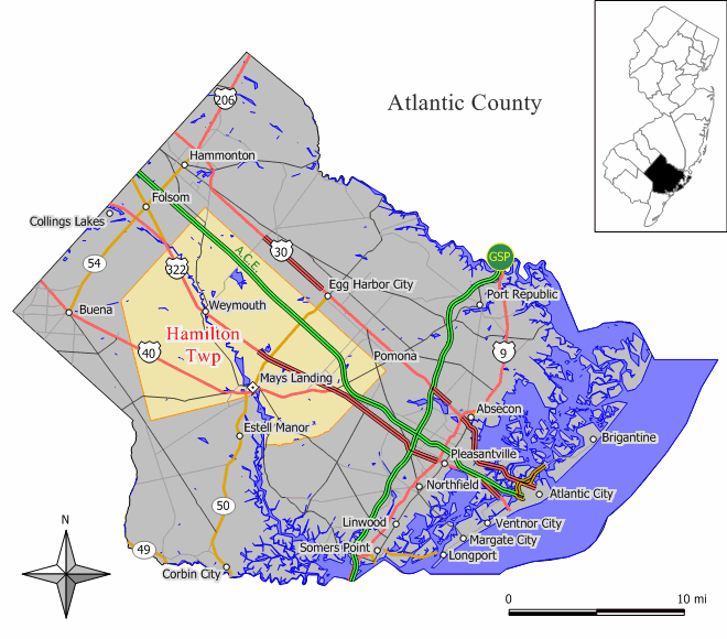 Locator map of Hamilton Township in Atlantic County, New Jersey